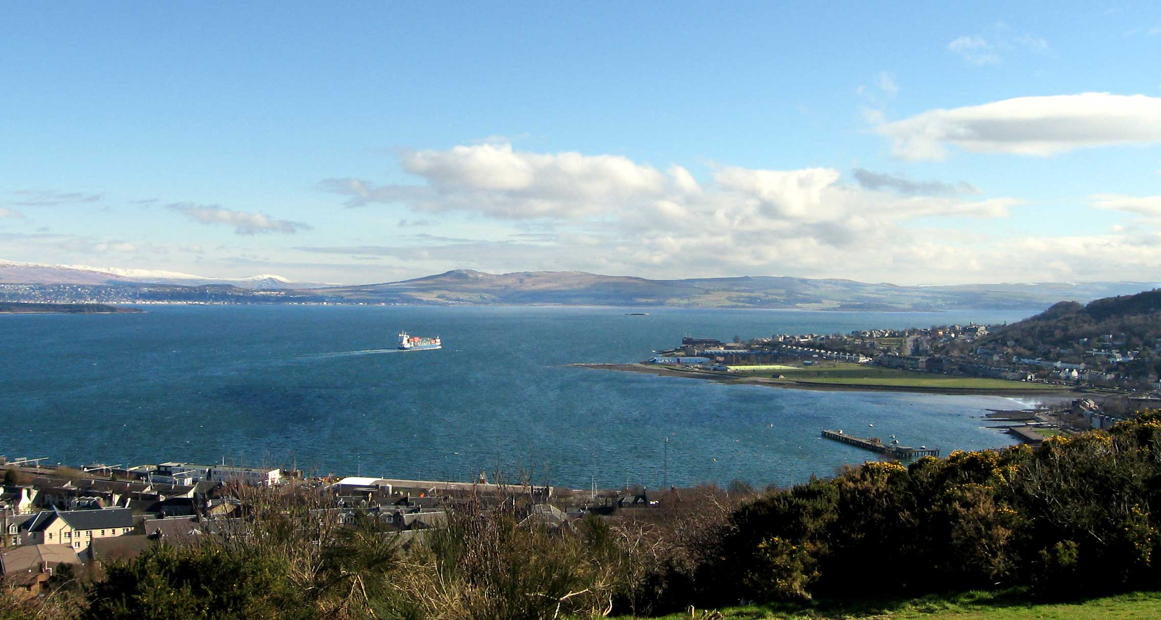 A container ship at the tail of the bank, the Firth of Clyde seen from Gourock, Scotland